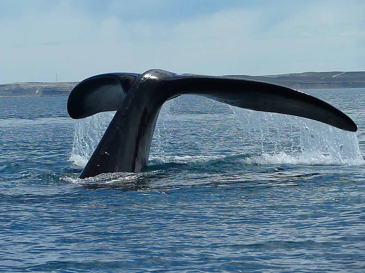 Tail of a southern right whale